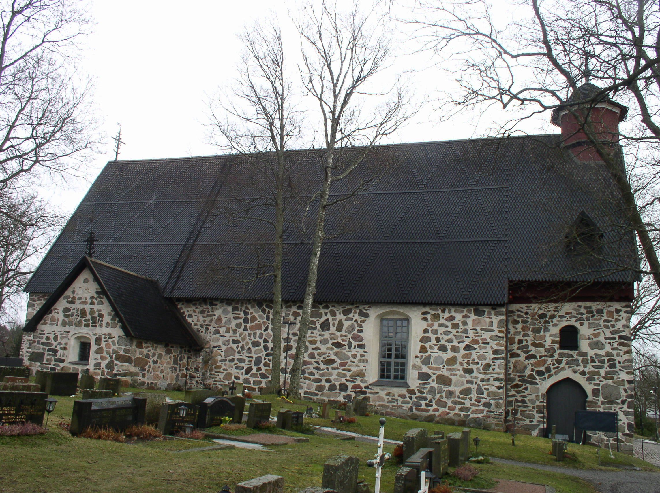 Raisio church in Raisio, Finland.